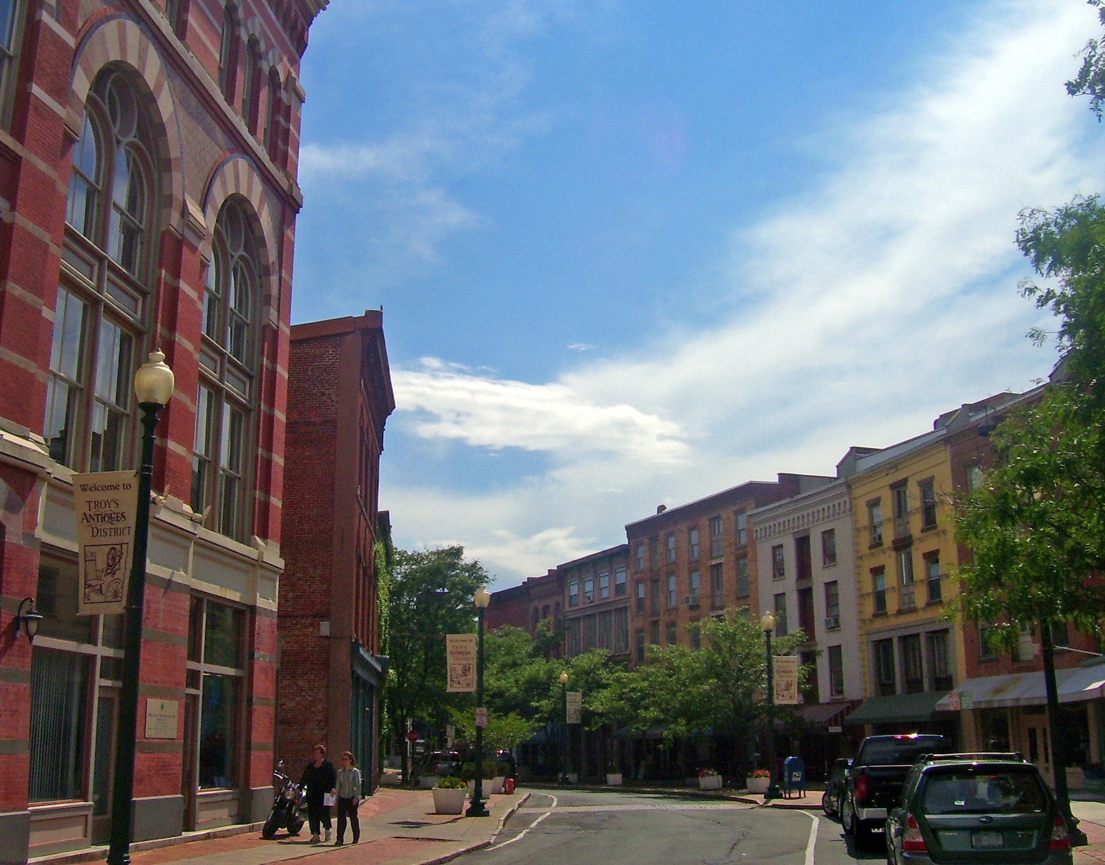 River Street, oldest section of downtown Troy, NY, USA